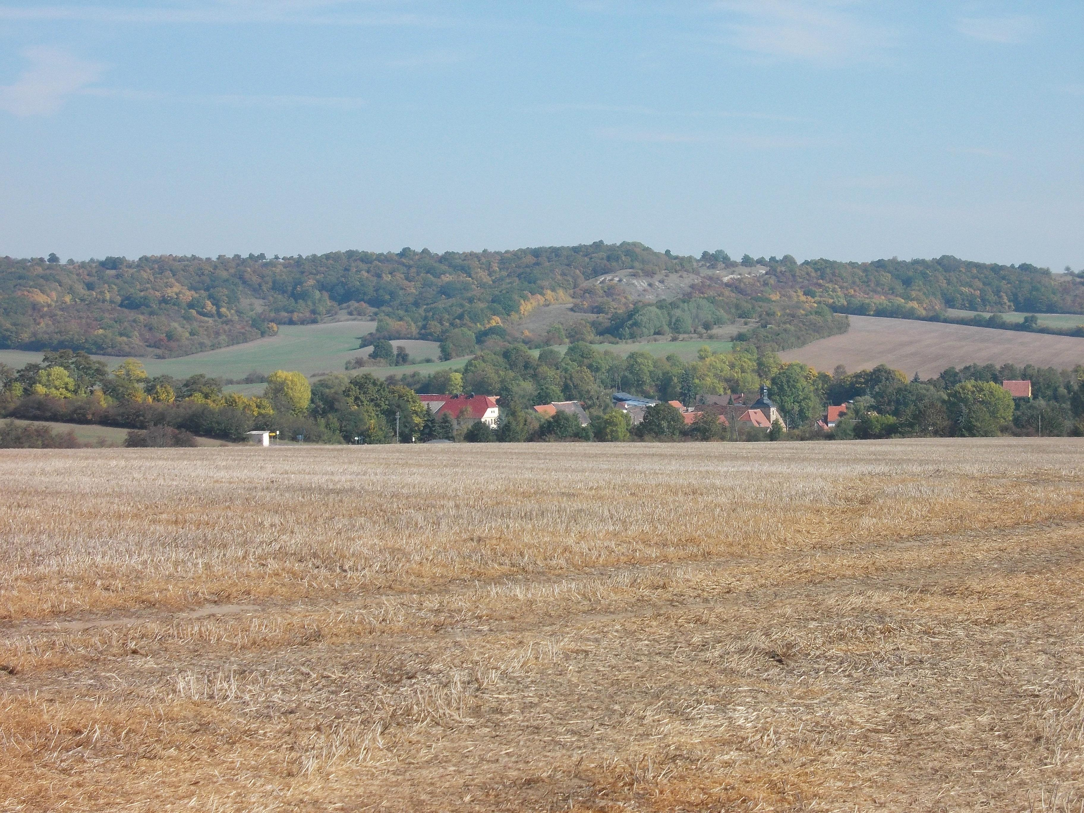 Grockstädt (Querfurt, district: Saalekreis, Saxony-anhalt) from the south-west, with the heights of the nature reserve "Schmoner Busch, Spielberger Höhe und Elsloch" in the background